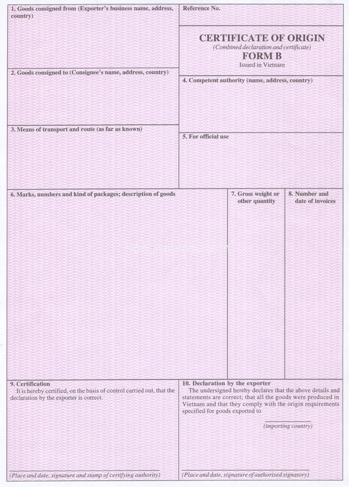 Sample of a non-preferential certificate of origin